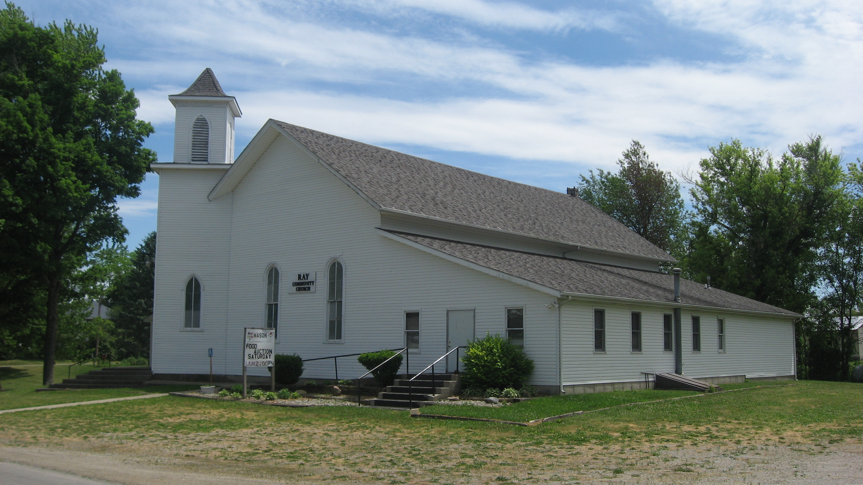 Front and western side of the Ray Community Church, located at 6265 E. State Line Road on the Indiana side of Ray, Indiana and Michigan, United States. Built in 1876, it was originally the Cedar Lake Reformed Presbyterian Church; after the congregation closed, the building was used by the local Methodist church before coming into the possession of its current owners.